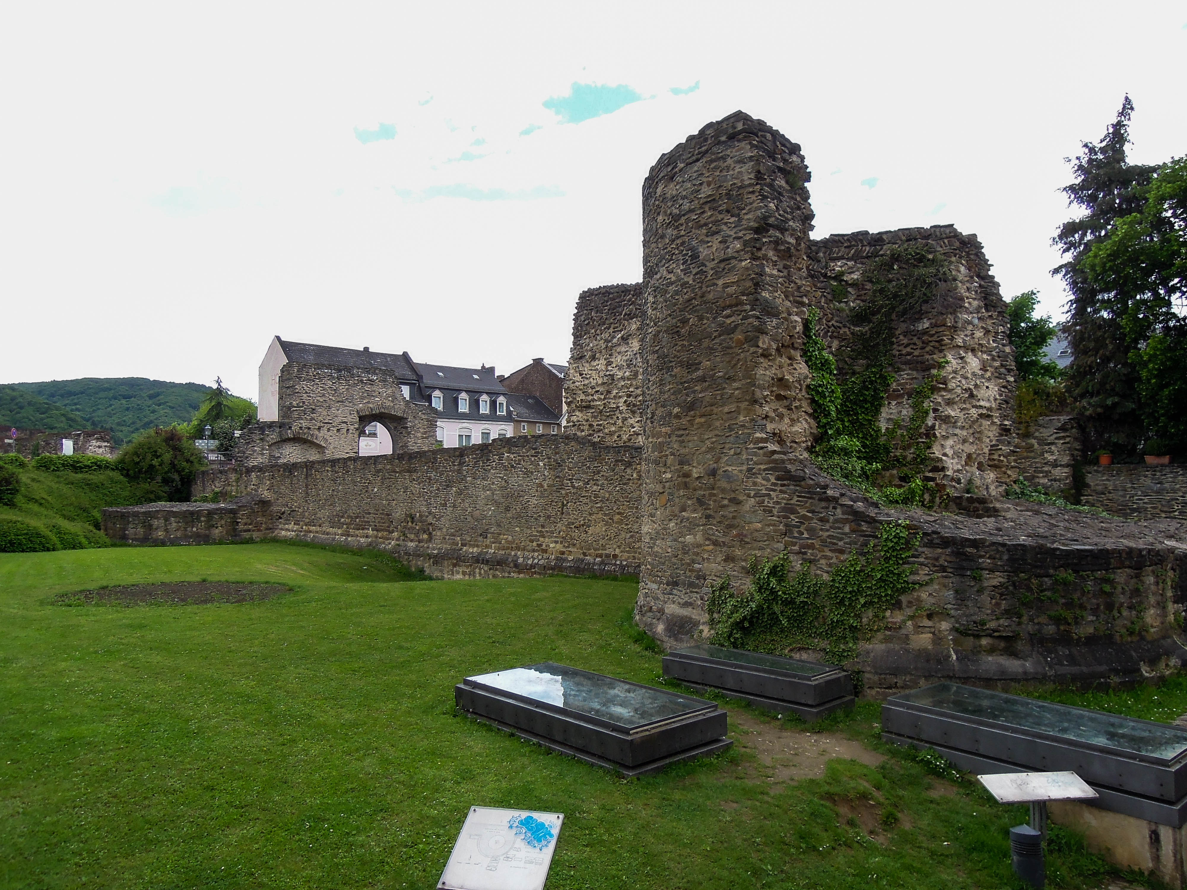 Rhineland-Palatinate, Castra Bodobrica. Wikidata has entry Q1735338 with data related to this item.